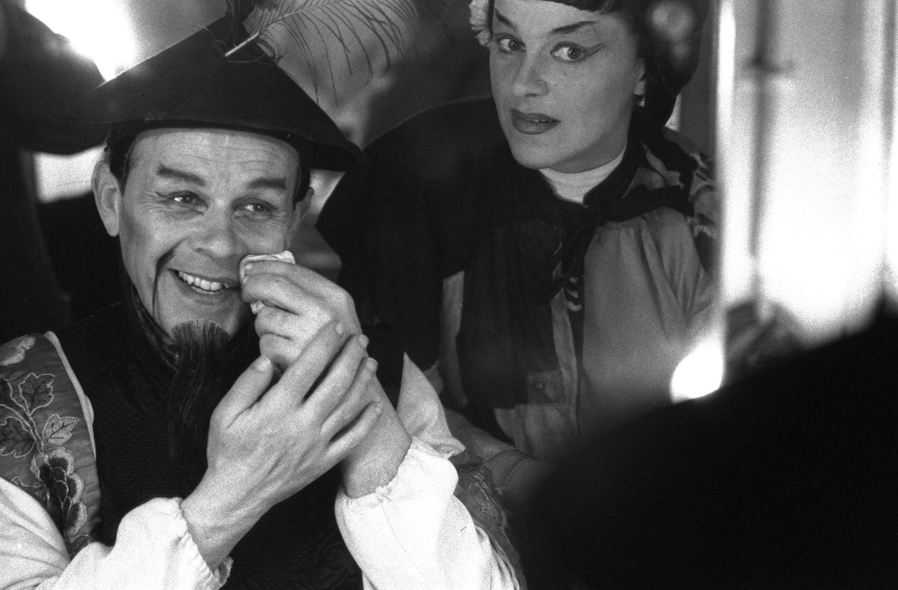 ISRAELI ACTORS, AVRAHAM BEN YOSEF AND ORNA PORAT, OF THE CAMERI THEATER IN TEL AVIV, BACKSTAGE AFTER A PERFORMANCE OF "LADY PRECIOUS STREAM".